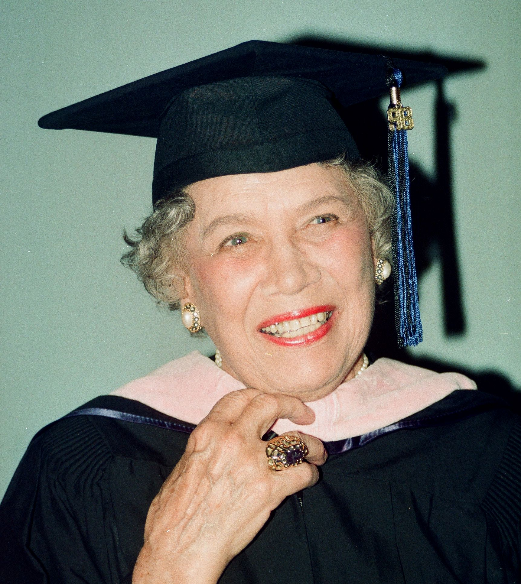 May 28, Baltimore ... Hometown girl receives Peabody award from Peabody institute